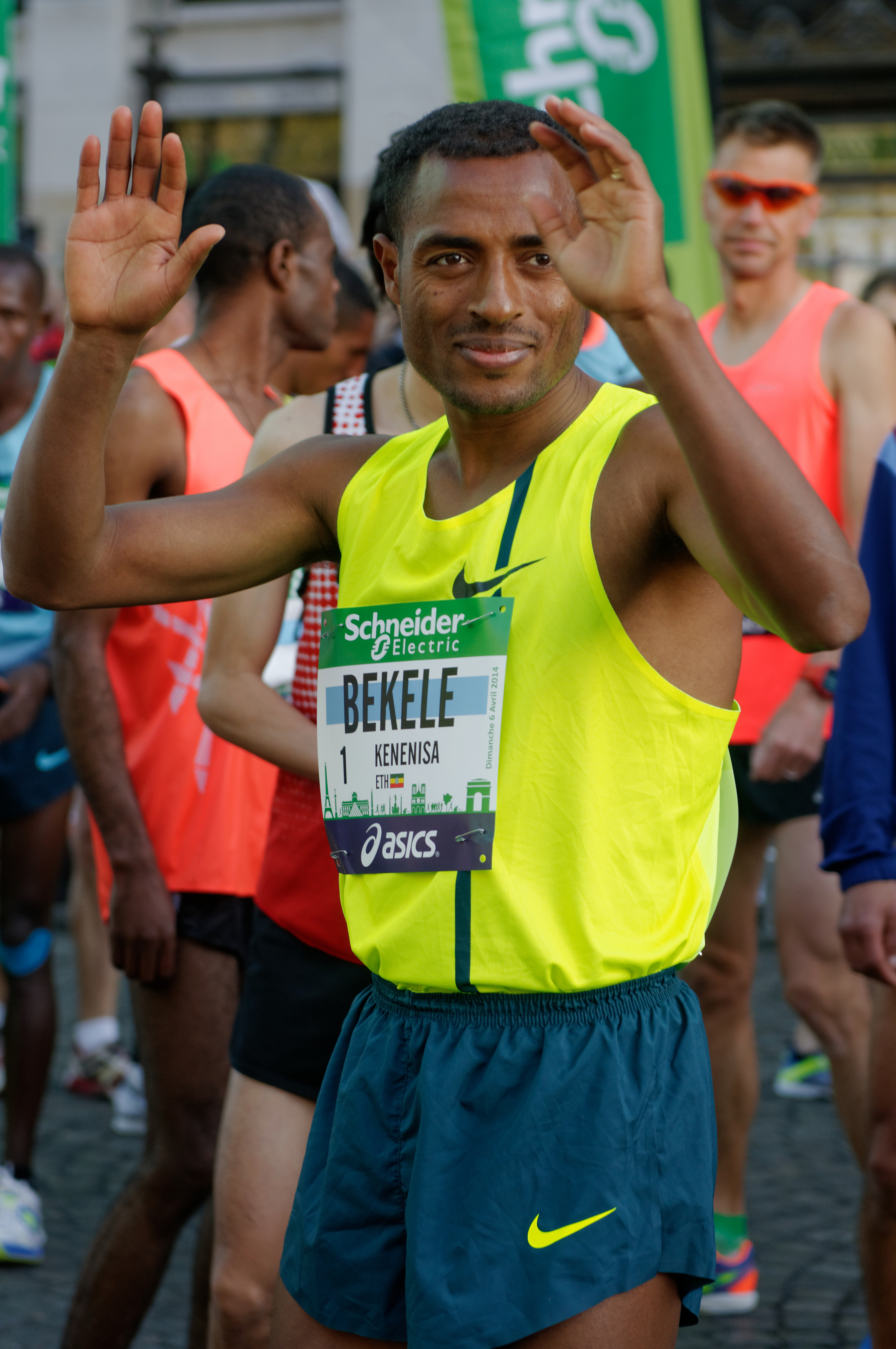 Ethiopia's Kenenisa Bekele salutes the crowd before the beginning of the 2014 Paris Marathon.